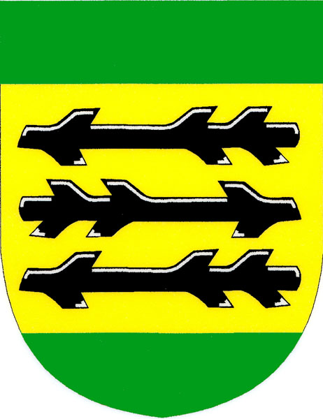 Municipal coat of arms of Horní Bezděkov village, Kladno District, Czech Republic.